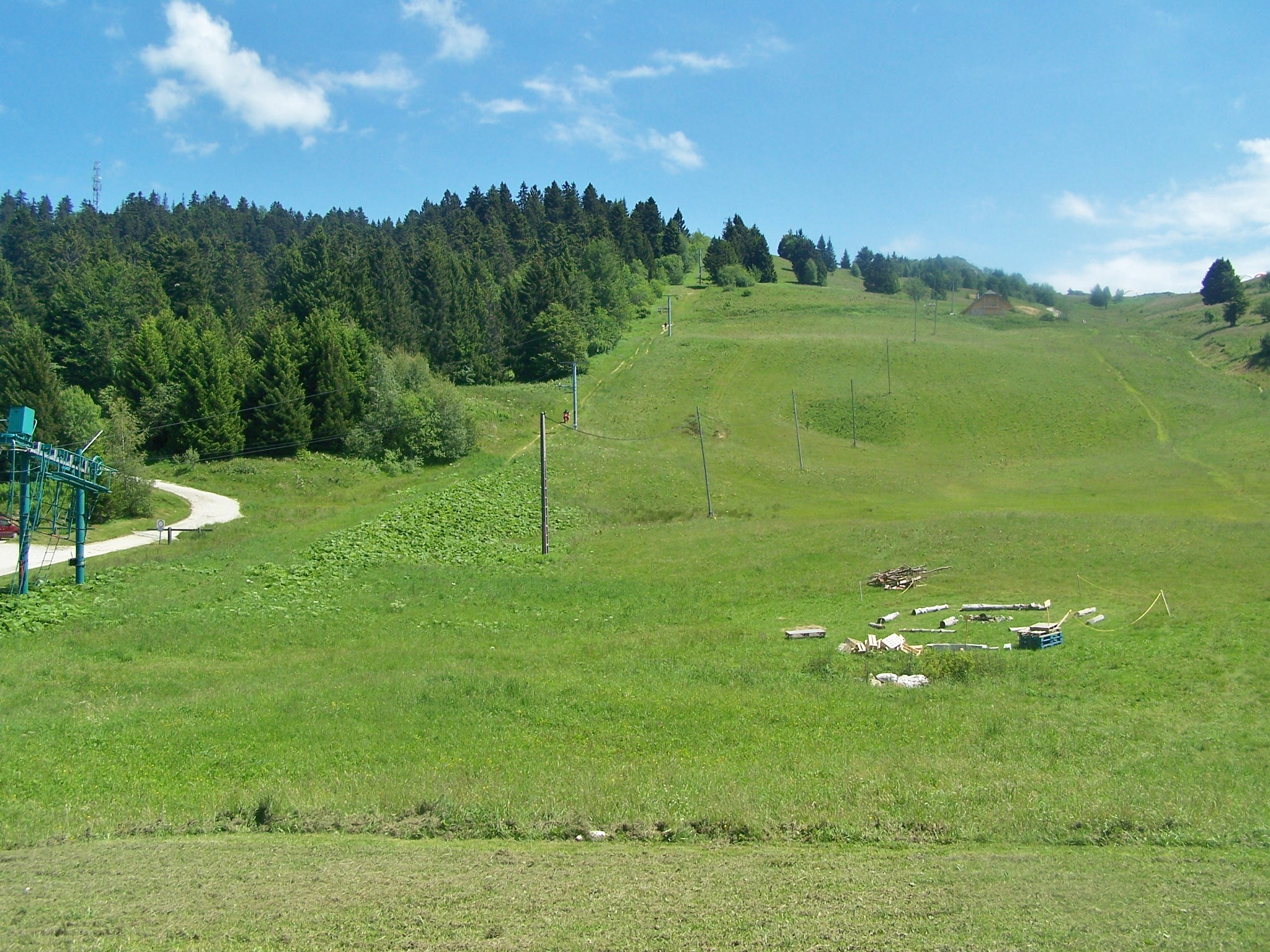 Sight, during summer, of the top of La Féclaz ski resort, at the so-called Le Sire place (about 1,500 meters high), in Savoie, France.